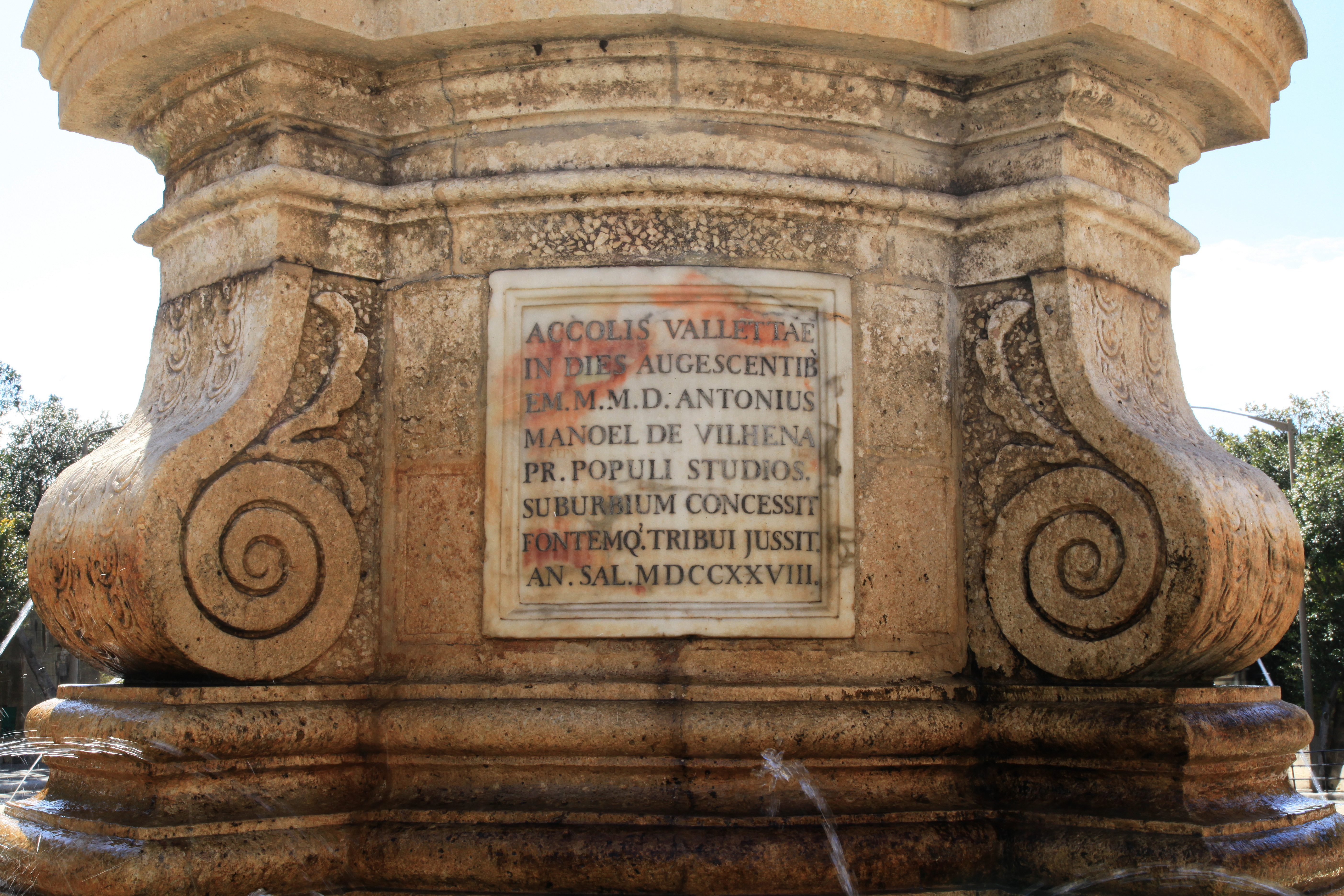 Lion Fountain at Triq Sant' Anna in Floriana, Malta